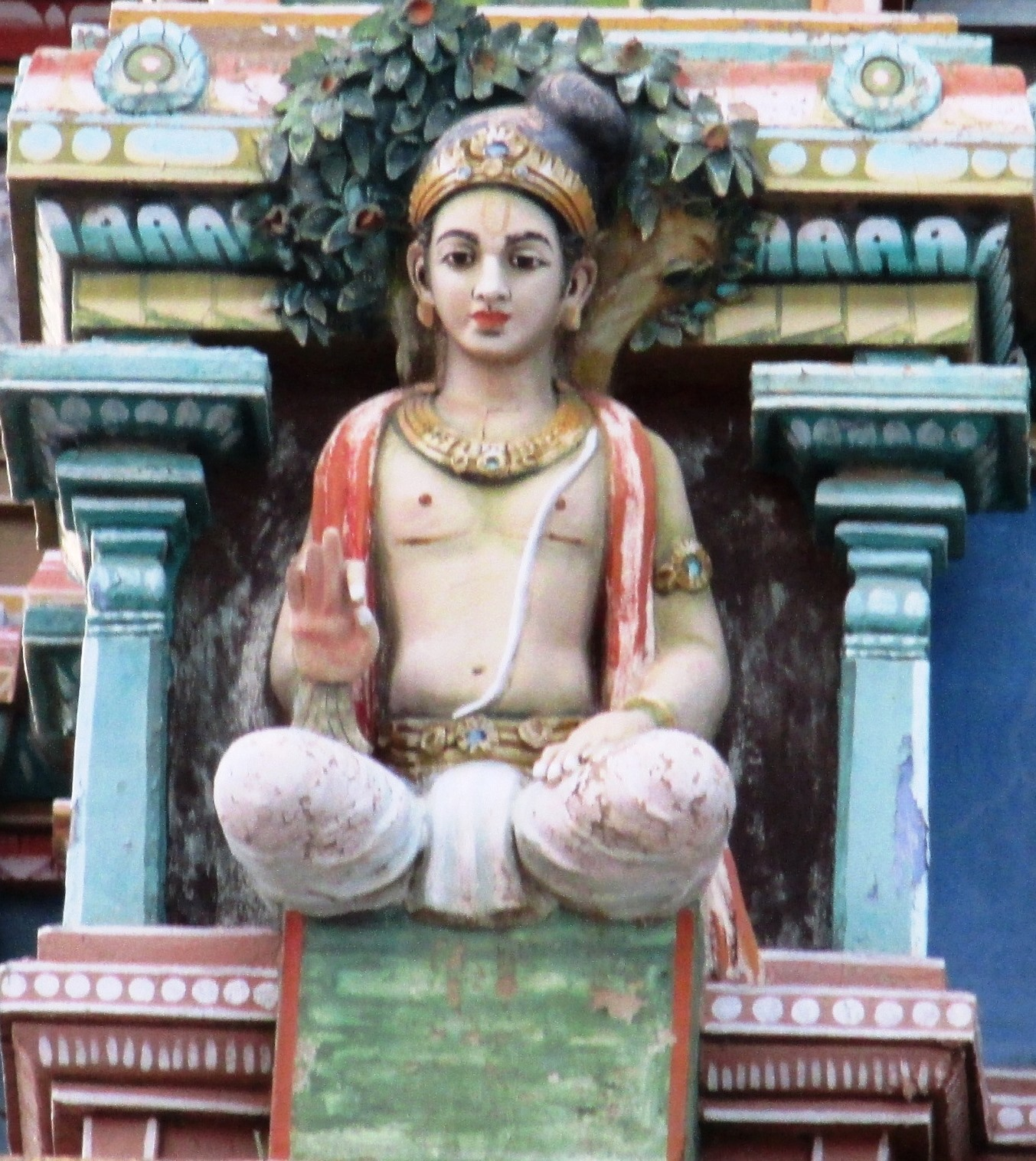 Kalamegaperumal